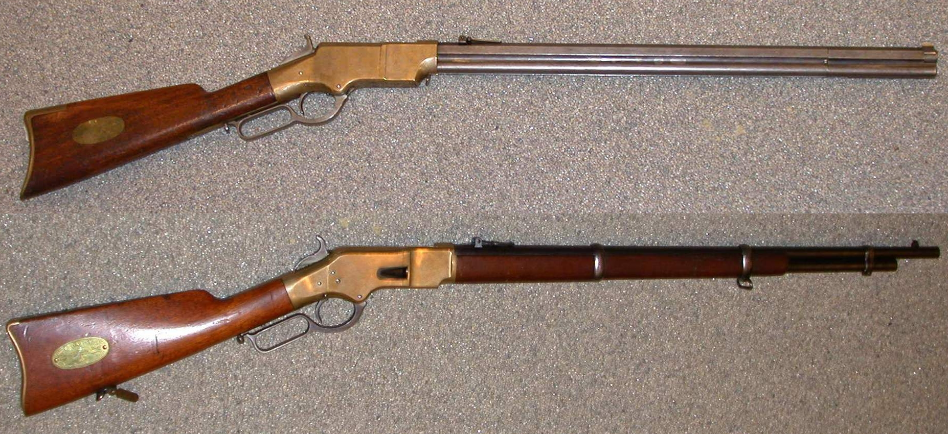 An early Henry Rifle and a Winchester Mod 1866 Rifle, both .44 caliber Rimfire